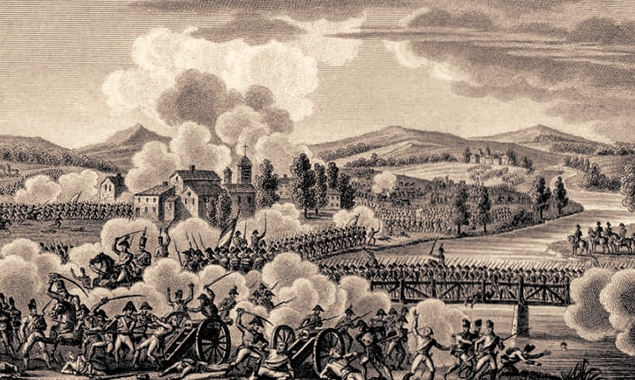 The battle of Bassano (1796)